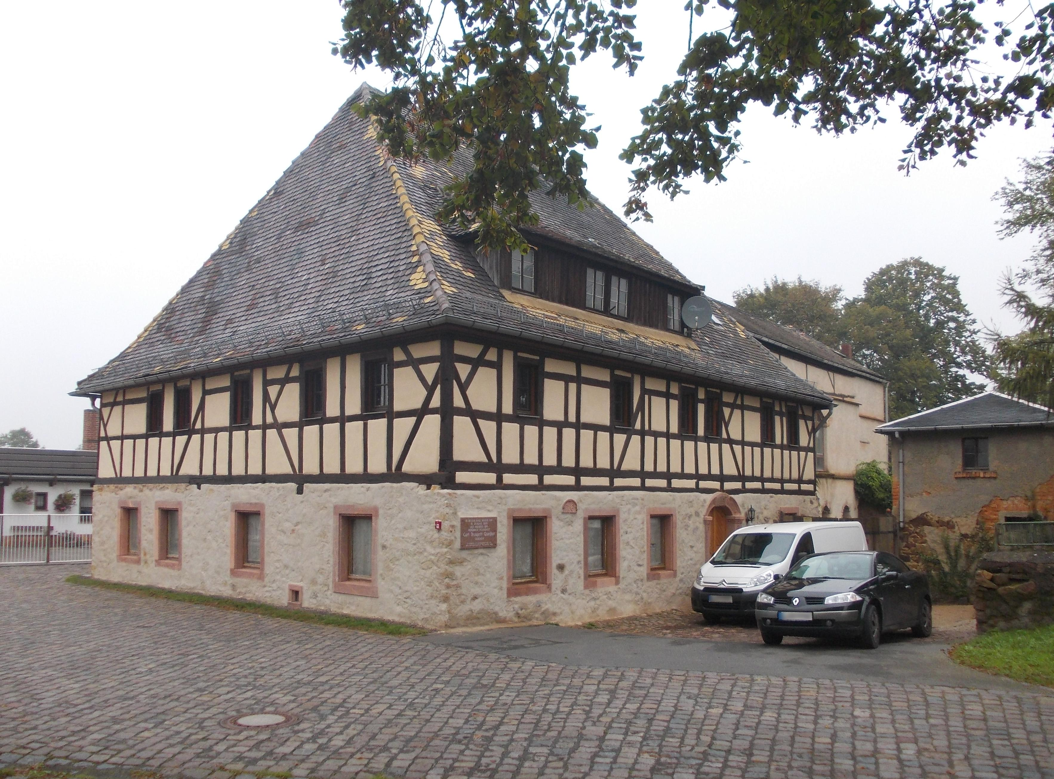 Former inn in Dorfplatz (village square) in Döben (Grimma, Leipzig district, Saxony)